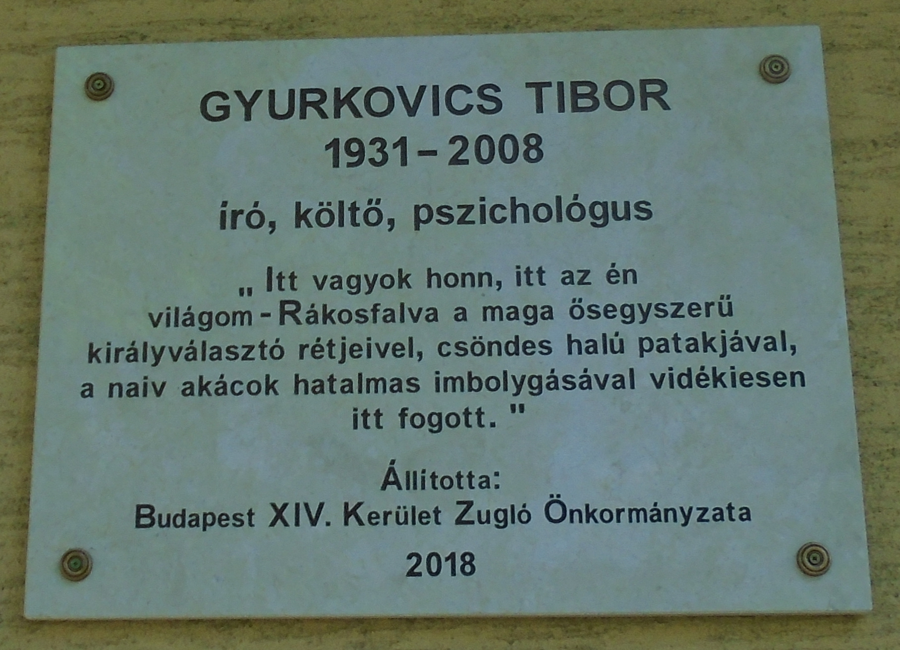 Tibor Gyurkovics's commemorative plaque in Budapest District XIV.